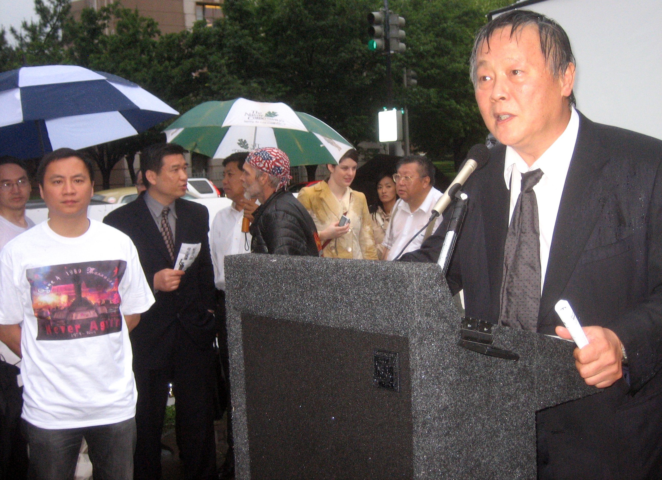 Wei Jingsheng, Chinese dissidents.